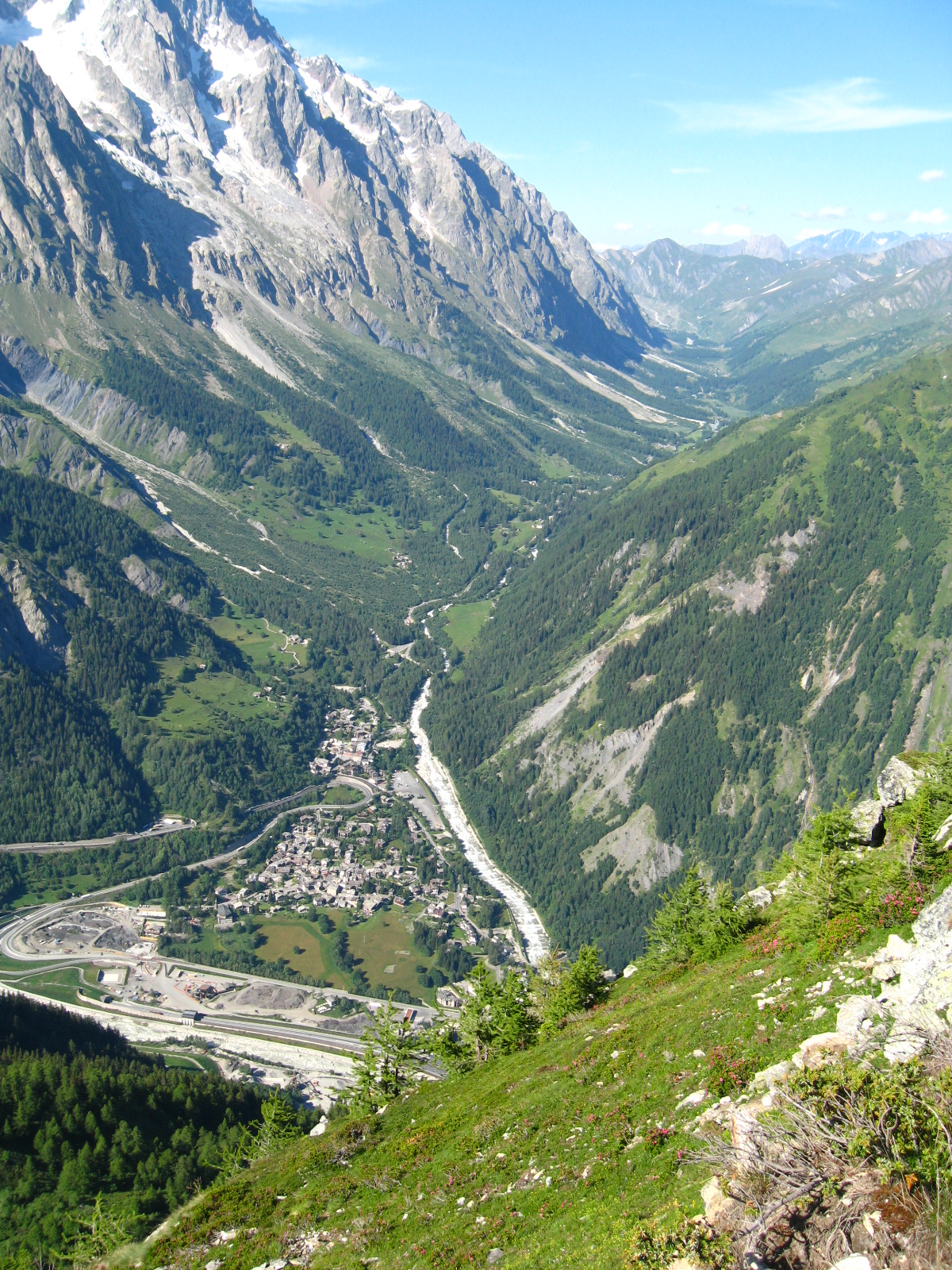 View from Mont Chetif down Val Ferret, with La Palud in foreground.